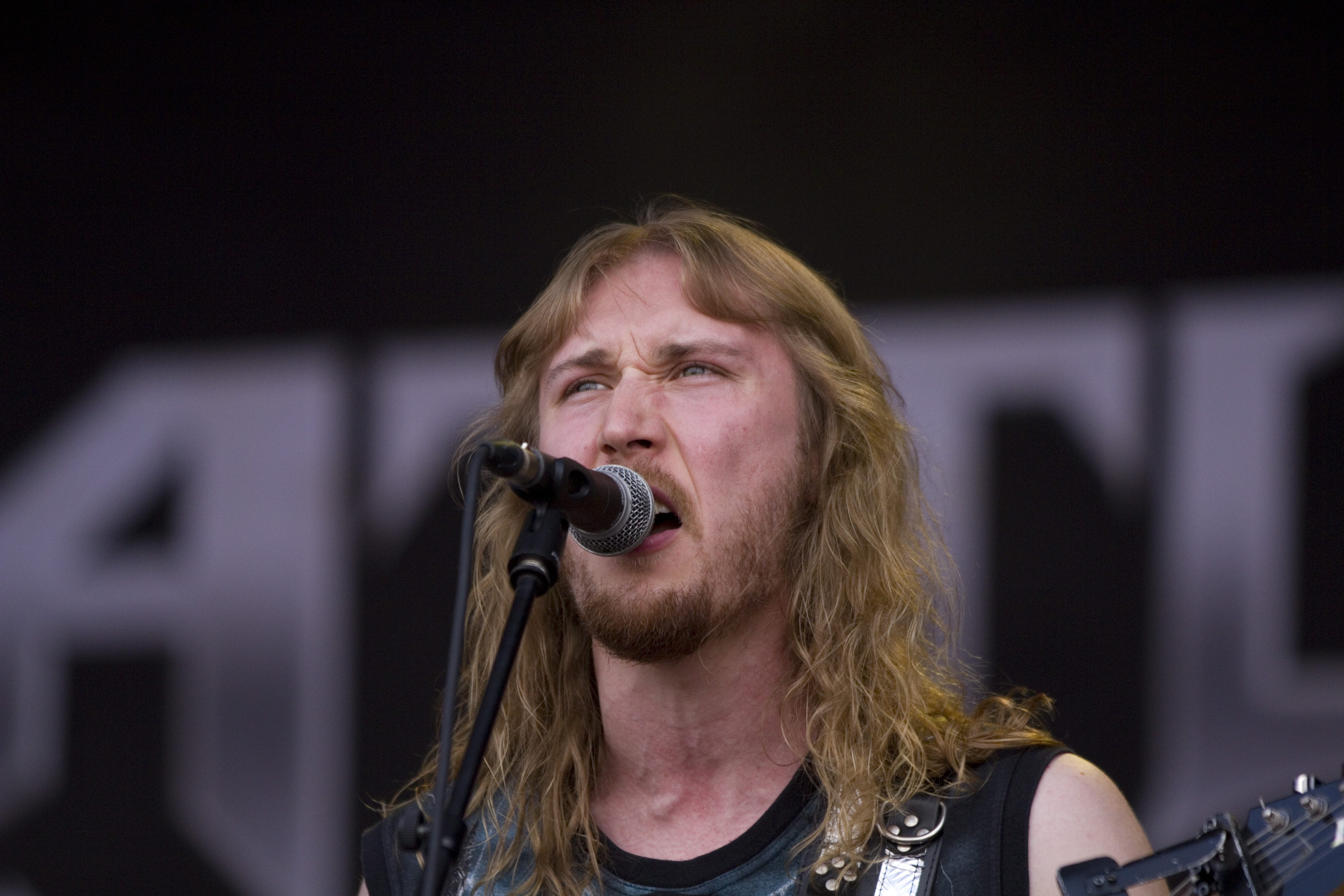 The Finnish heavy metal band Battle Beast at the Rockharz Open Air 2014 in Ballenstedt/Germany